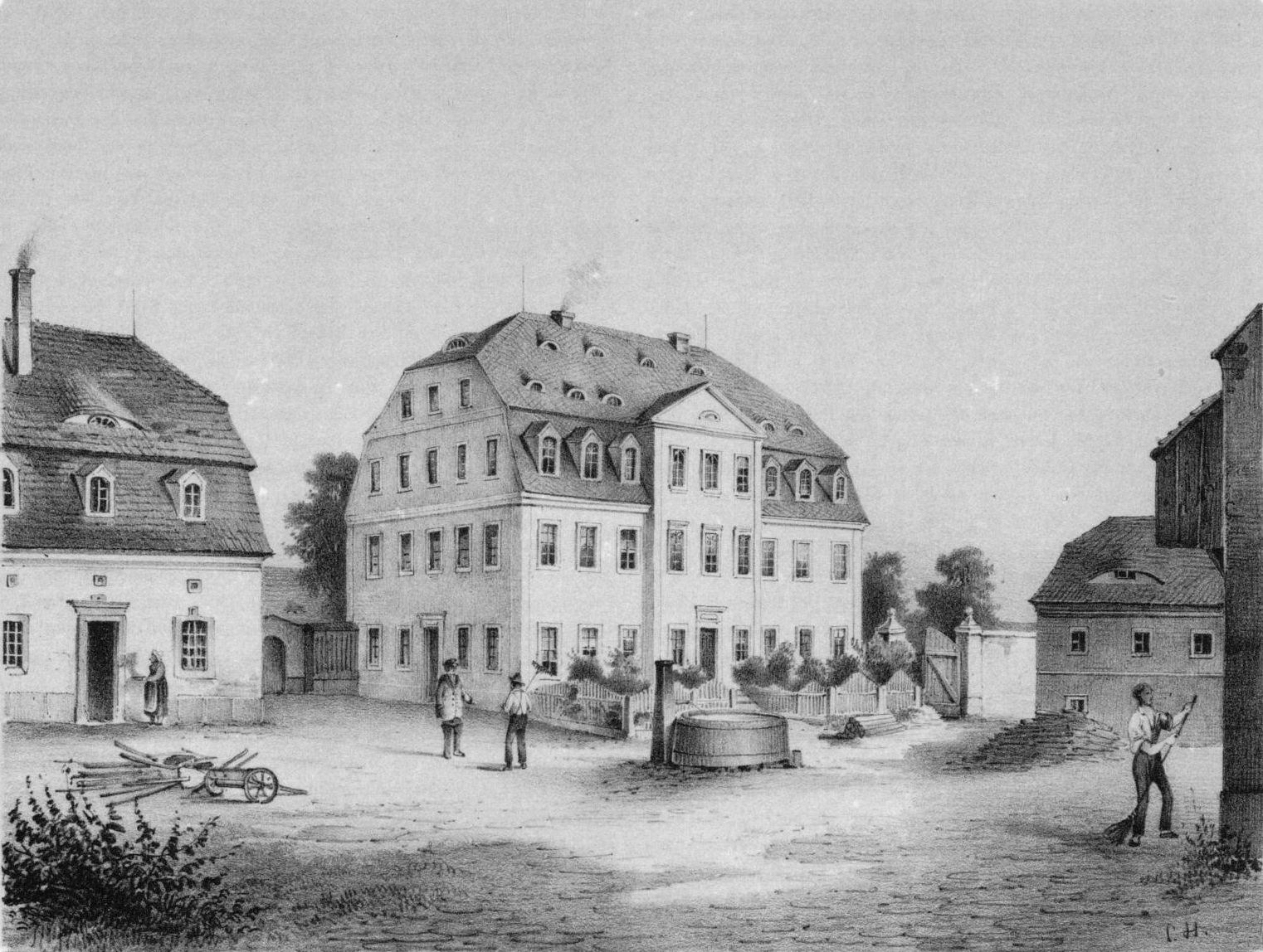 manor house Schlößchen Porschendorf